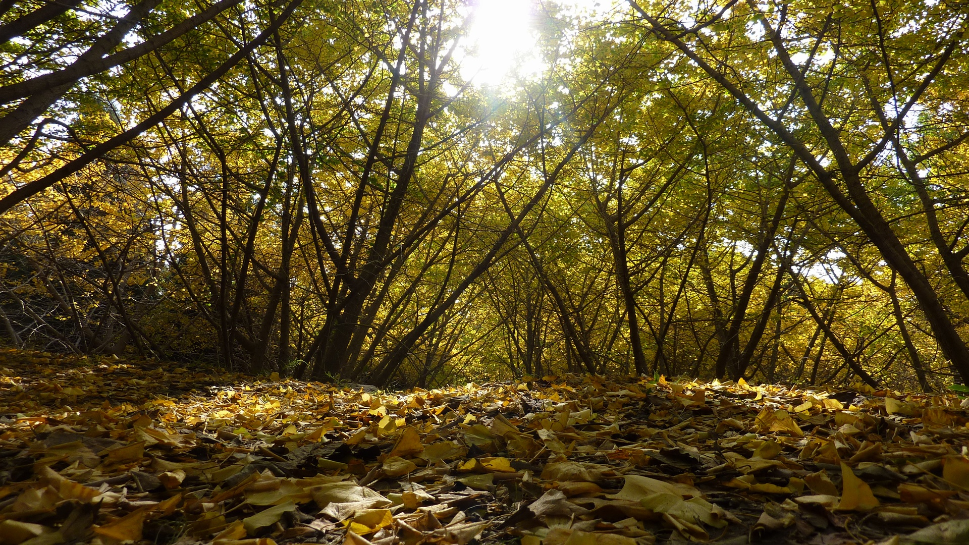 Tarumizu Thousand Ginkgos (Tarumizu City, Kagoshima Prefecture, Japan)